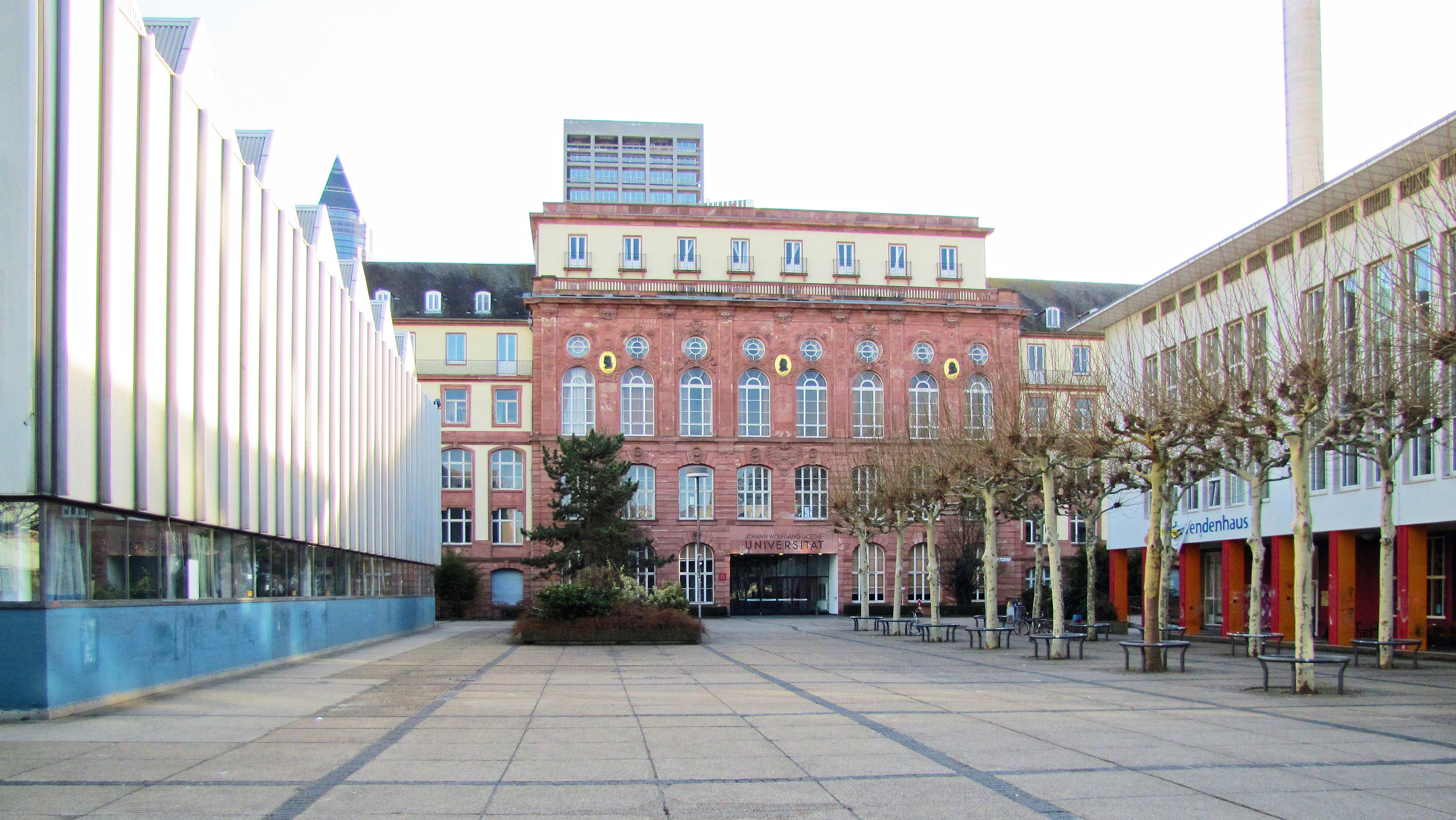 Campus Bockenheim of Goethe University Frankfurt ("Juegelhaus", entrance).